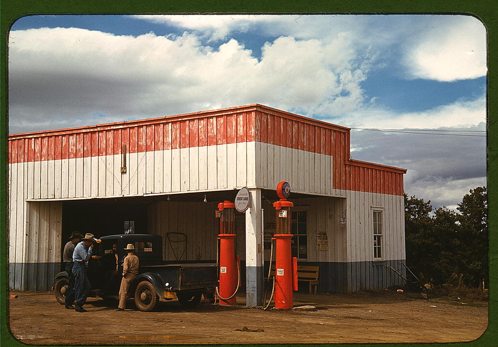 Filling station and garage at Pie Town, New Mexico